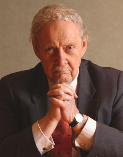 Robert Bork circa 2005.